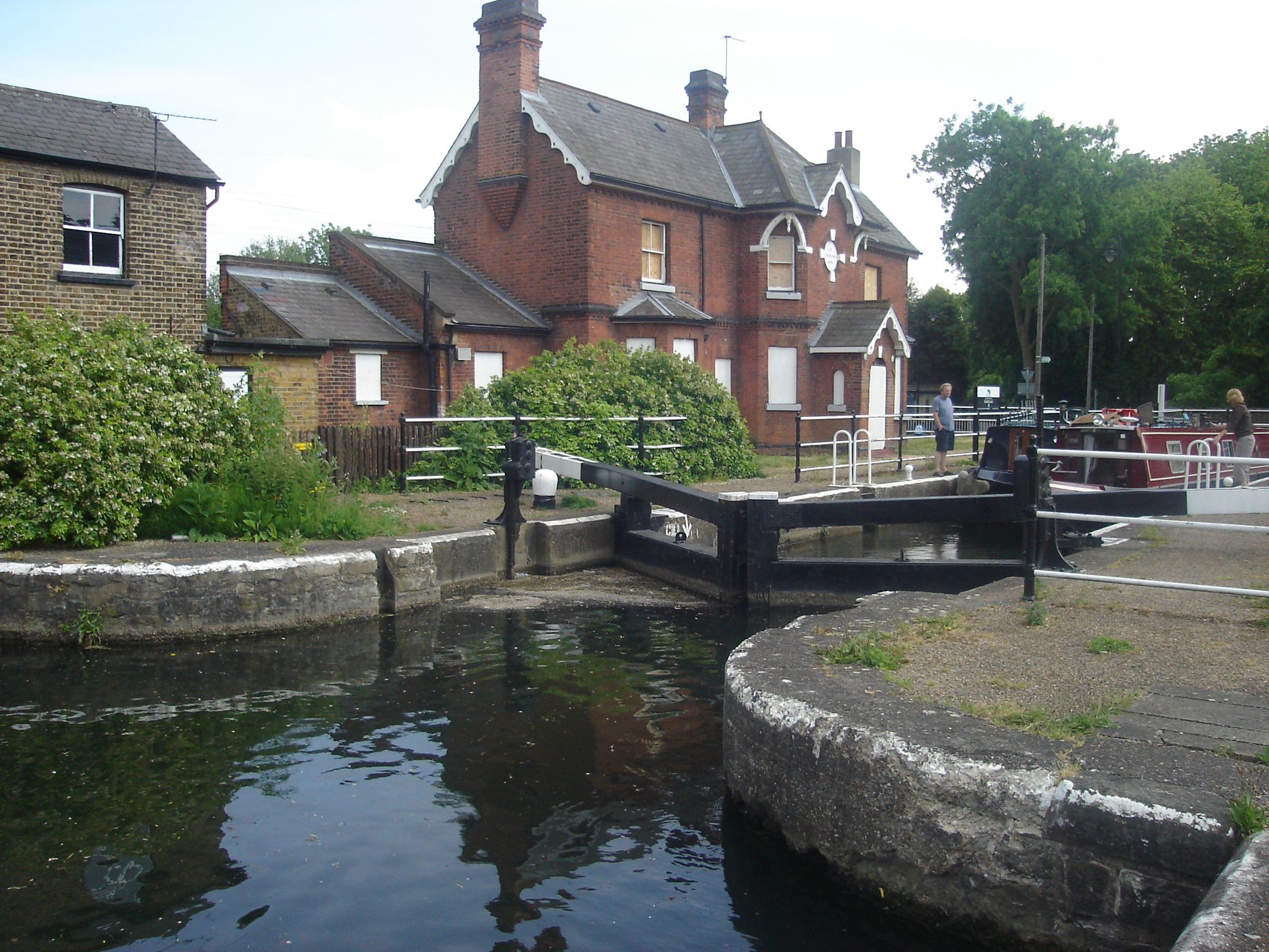 Picture of Enfield Lock